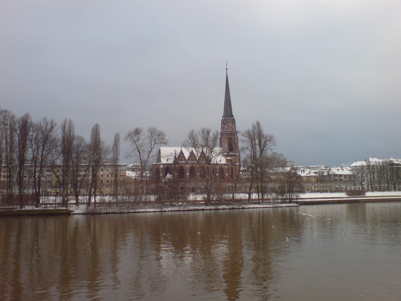 A view over the wintery southern bank of the Main in Frankfurt am Main in Germany.